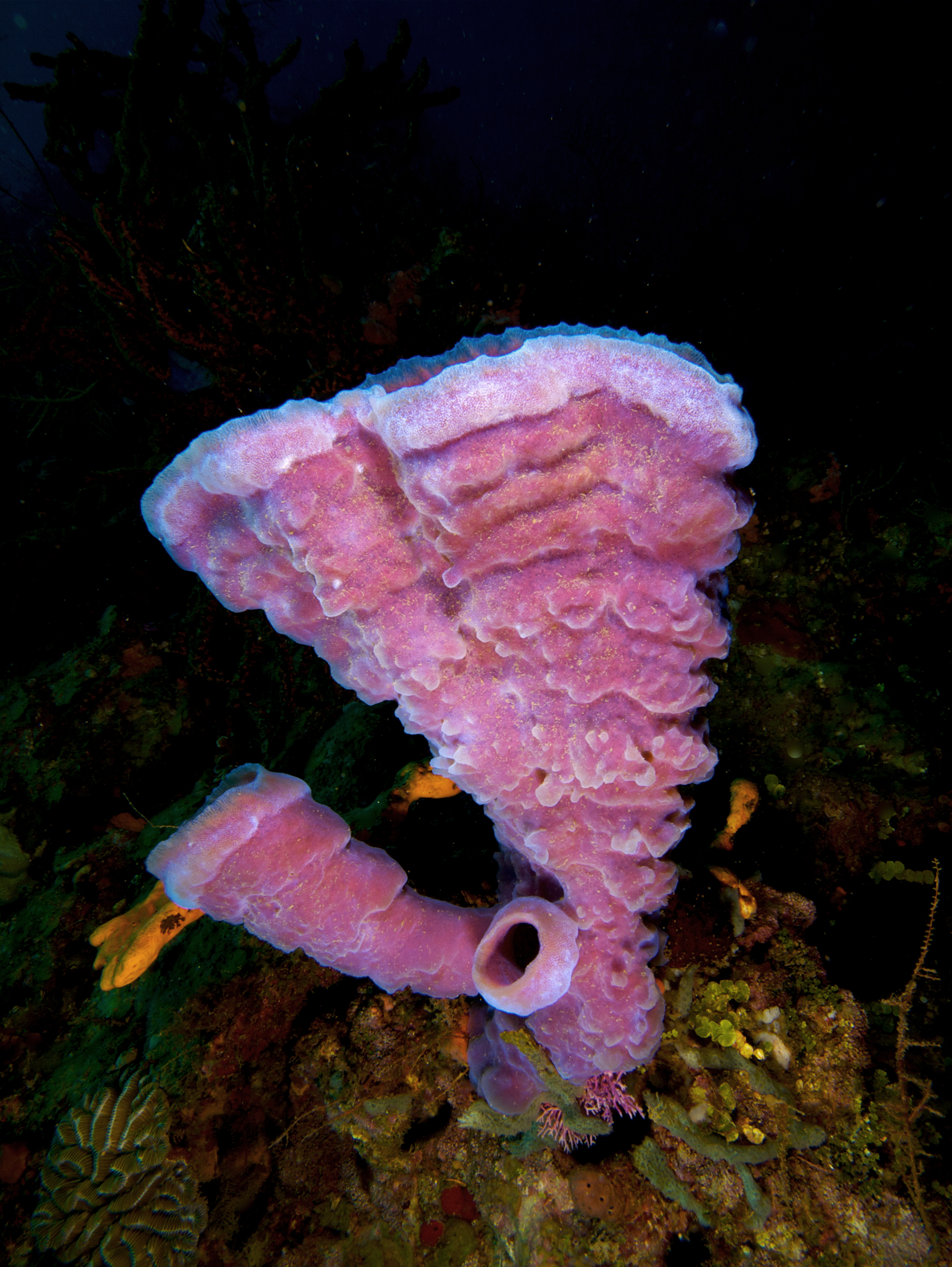 Callyspongia vaginalis, Branching Vase Sponge - pink variation.